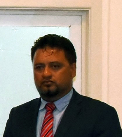 Albert Nicholas, Cook Islands MP, in the Cook Islands Cabinet Room, March 2017